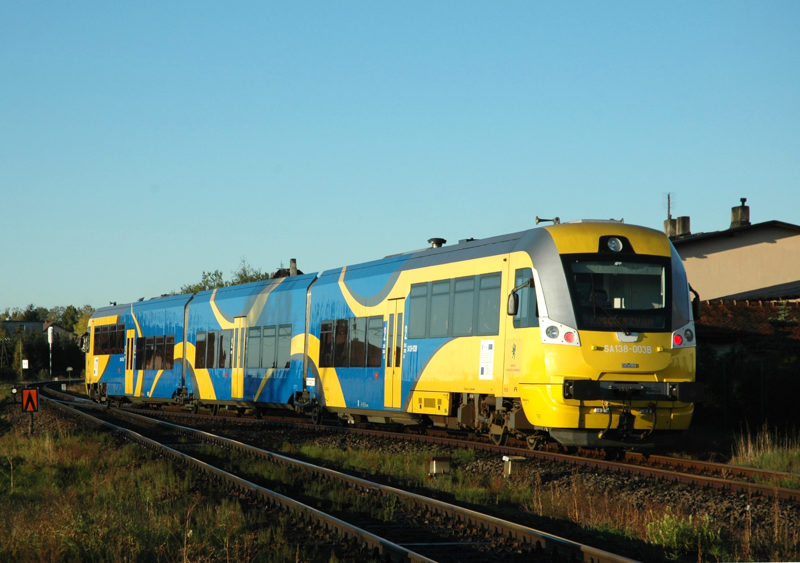 DMU SA138-003 (owned by Pomeranian Voivodeship, hired to Przewozy Regionalne railway operator) at Żukowo Wschodnie station